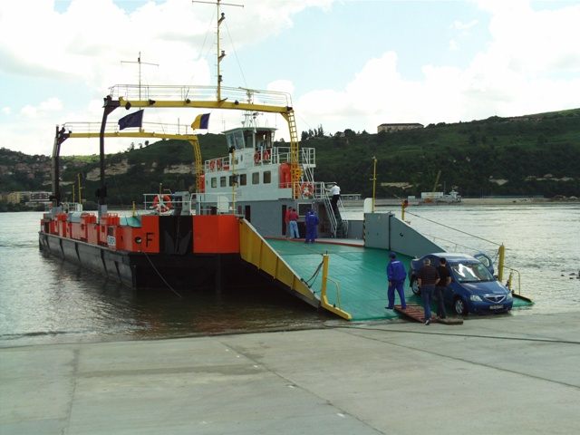 Ferry across the Danube at Turnu Măgurele.